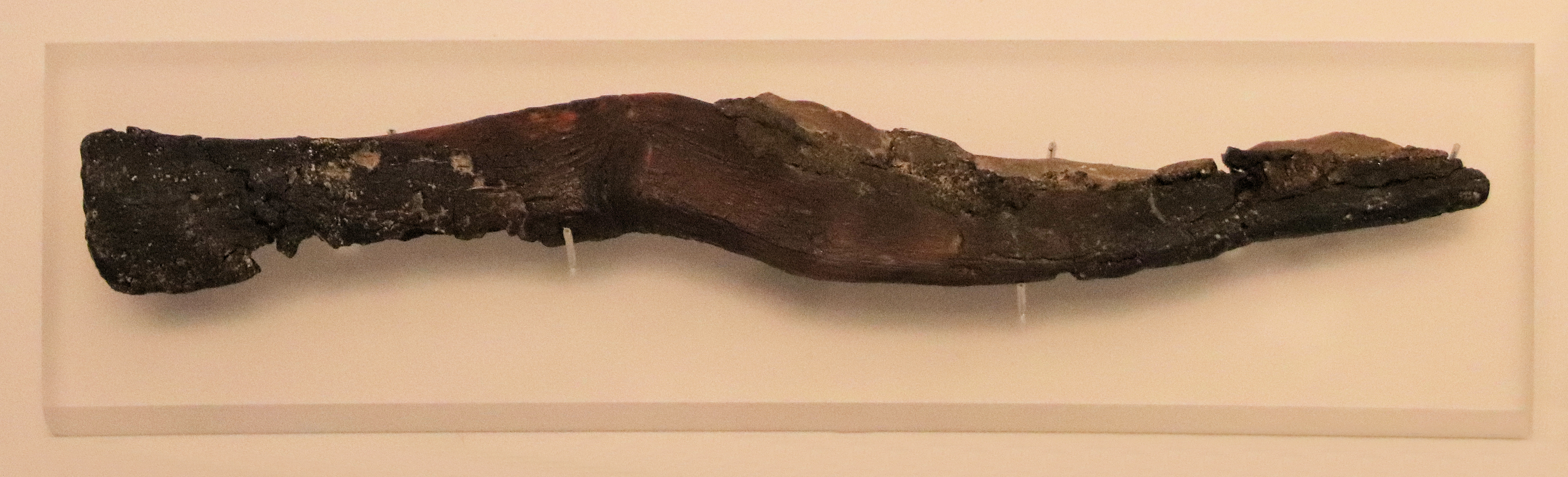 The Oldest Sickle, Flint & Resin, Tahunian Culture, c. 7000 BC Israel Museum, Jerusalem, Israel. Complete indexed photo collection at .